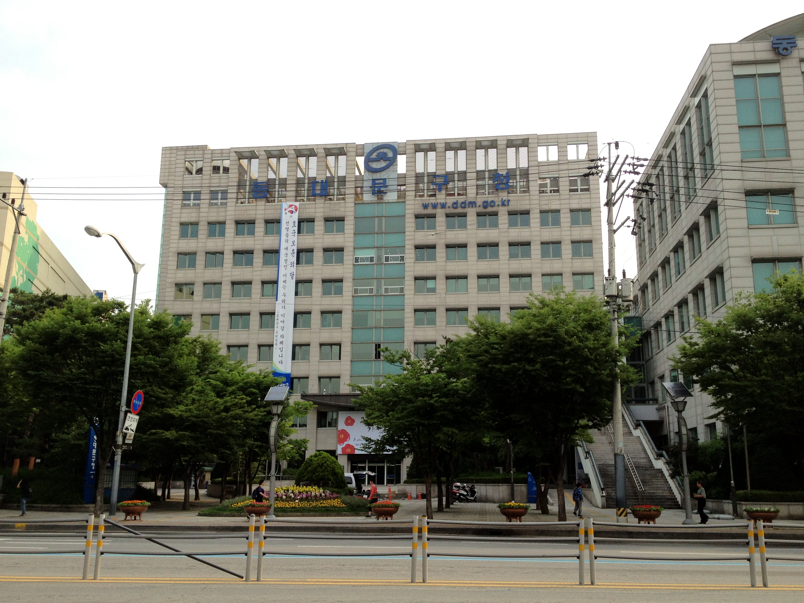 Dongdaemun-gu Office(Seoul Special City)